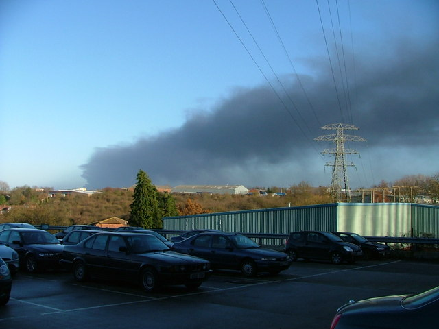 A trail of black smoke from the Buncefield Oil Depot explosion seen from Cressex, High Wycombe about 18 miles (29 km) away, nearly 38 hours after the explosion